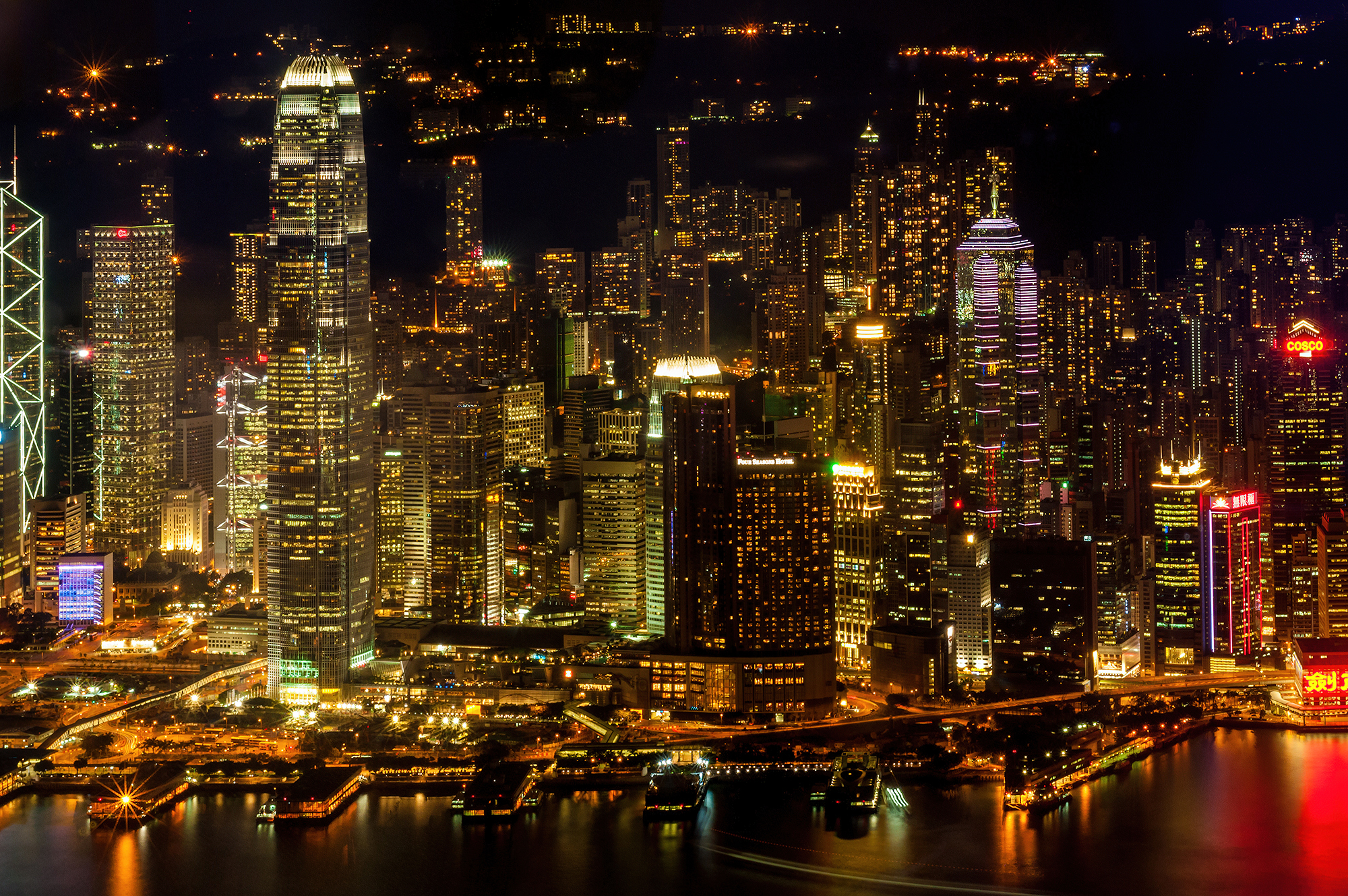 Skyscrapers in Victoria Harbour, Hong Kong